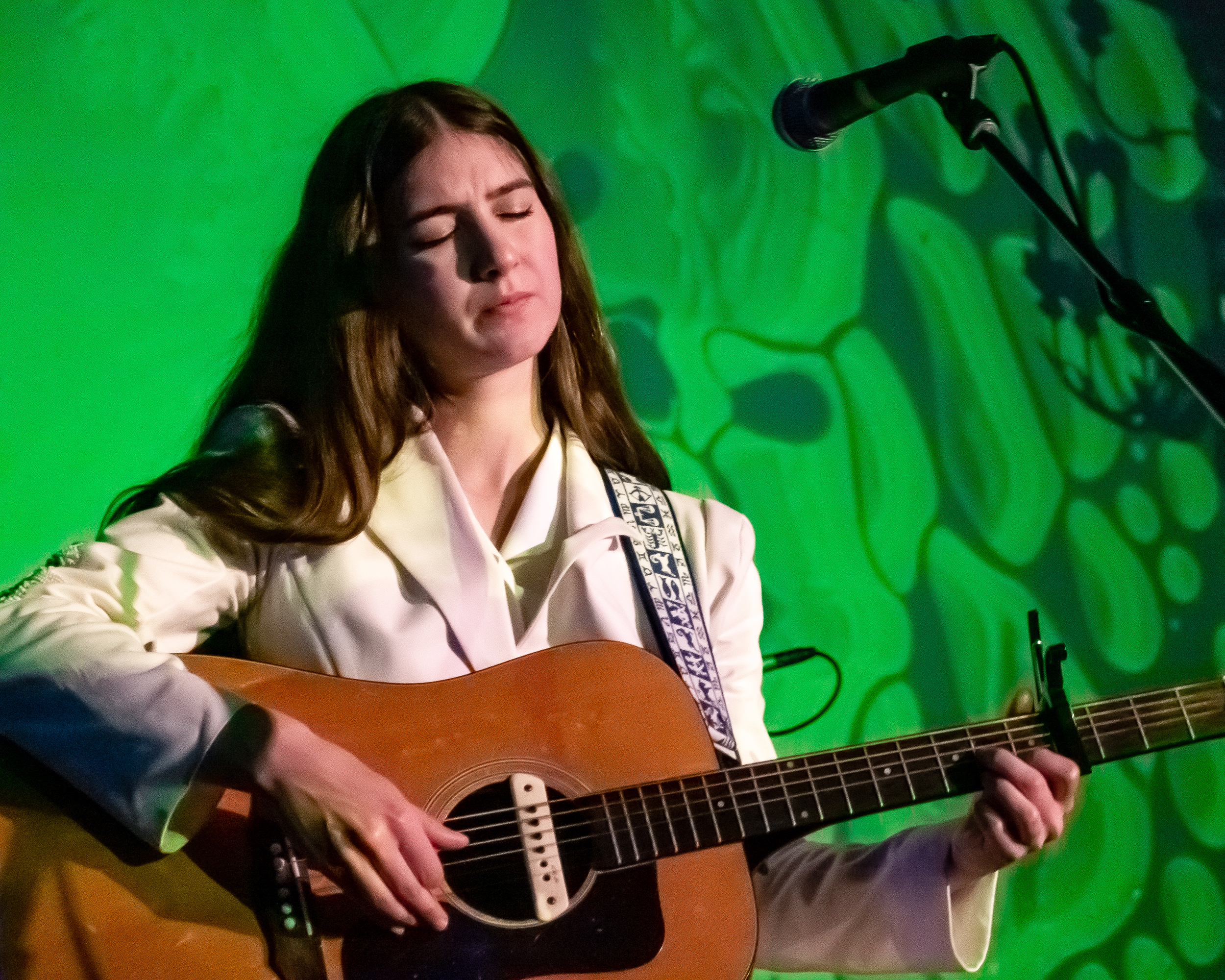 Weyes Blood performing live at the Masonic Lodge at Hollywood Forever in Los Angeles, California, on Thursday, April 4, 2019.